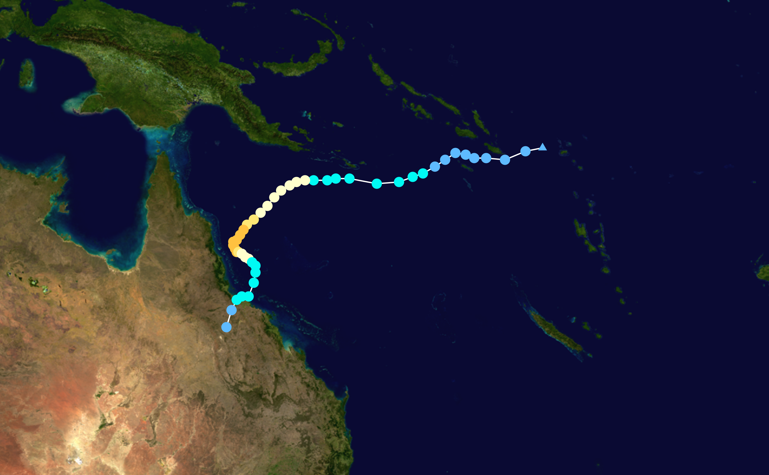 Cyclone Joy track. Uses the color scheme from the Saffir-Simpson Hurricane Scale. The points show the location of each storm at six-hour intervals. The colour represents the storm's maximum sustained wind speeds as classified in the Saffir-Simpson Hurricane Scale (see below), and the shape of the data points represent the nature of the storm. Saffir–Simpson scale Tropical depression≤38 mph≤62 km/h Category 3111–129 mph178–208 km/h Tropical storm39–73 mph63–118 km/h Category 4130–156 mph209–251 km/h Category 174–95 mph119–153 km/h Category 5≥157 mph≥252 km/h Category 296–110 mph154–177 km/h Unknown Storm type Tropical cyclone Subtropical cyclone Extratropical cyclone / Remnant low / Tropical disturbance